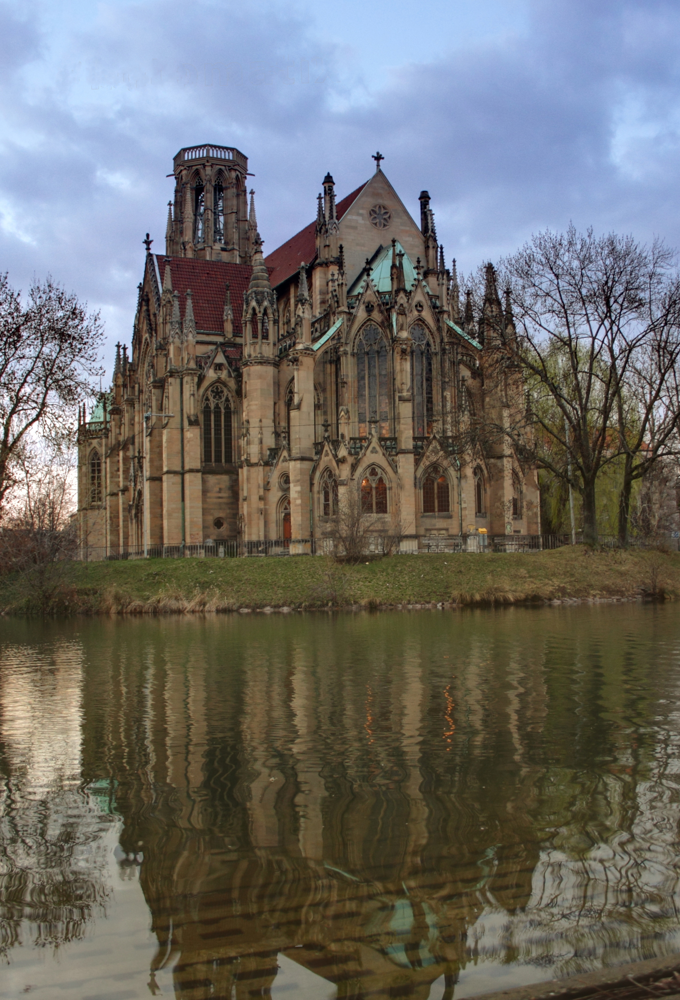 Feuersee, in the area of the same name in Stuttgart West.